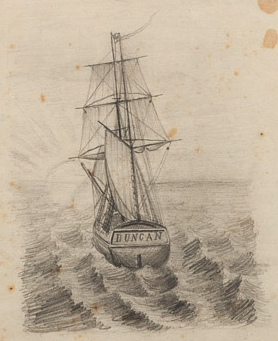 The clipper Duncan Dunbar while sailing, by King Ferdinand II of Portugal